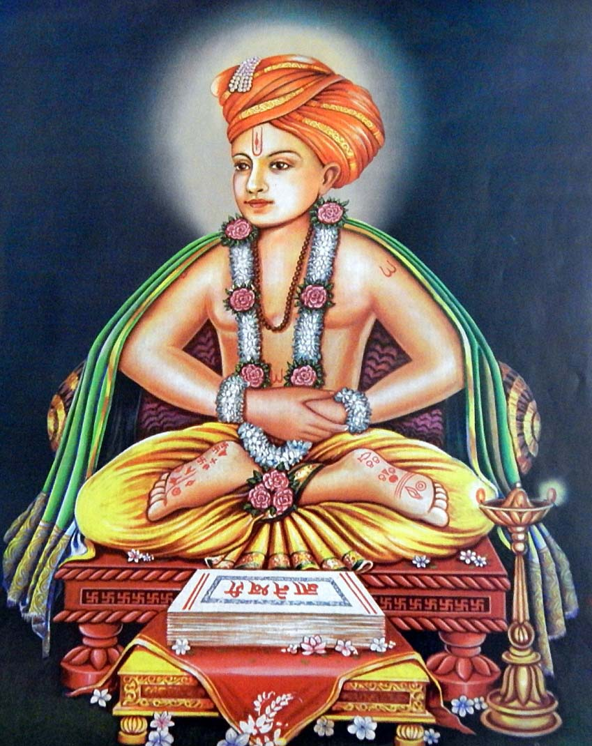 This image is again the most used image of Sant Dnyaneshwar and authorized by Varkari cult